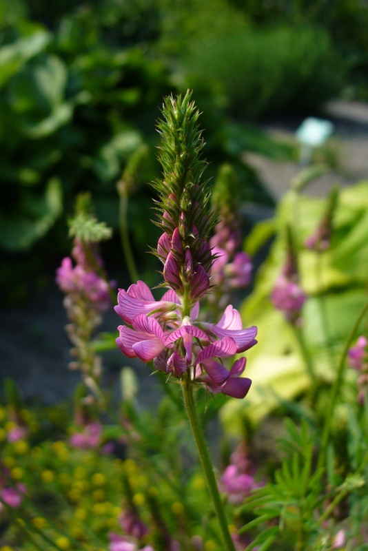 Onobrychis arenaria